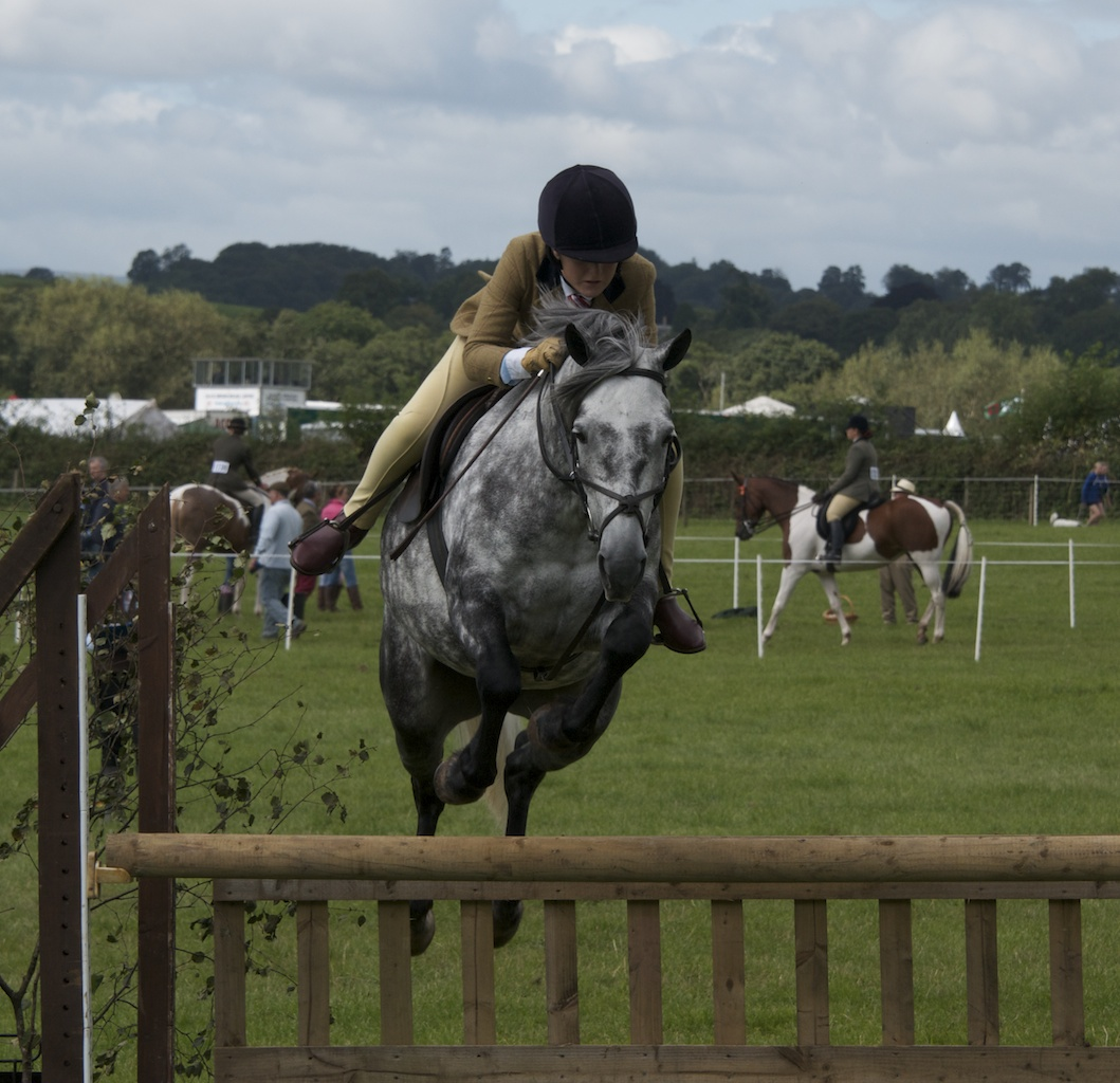 Show Jumping, Monmouth Show